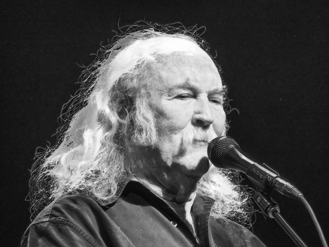 Crosby, Stills & Nash!